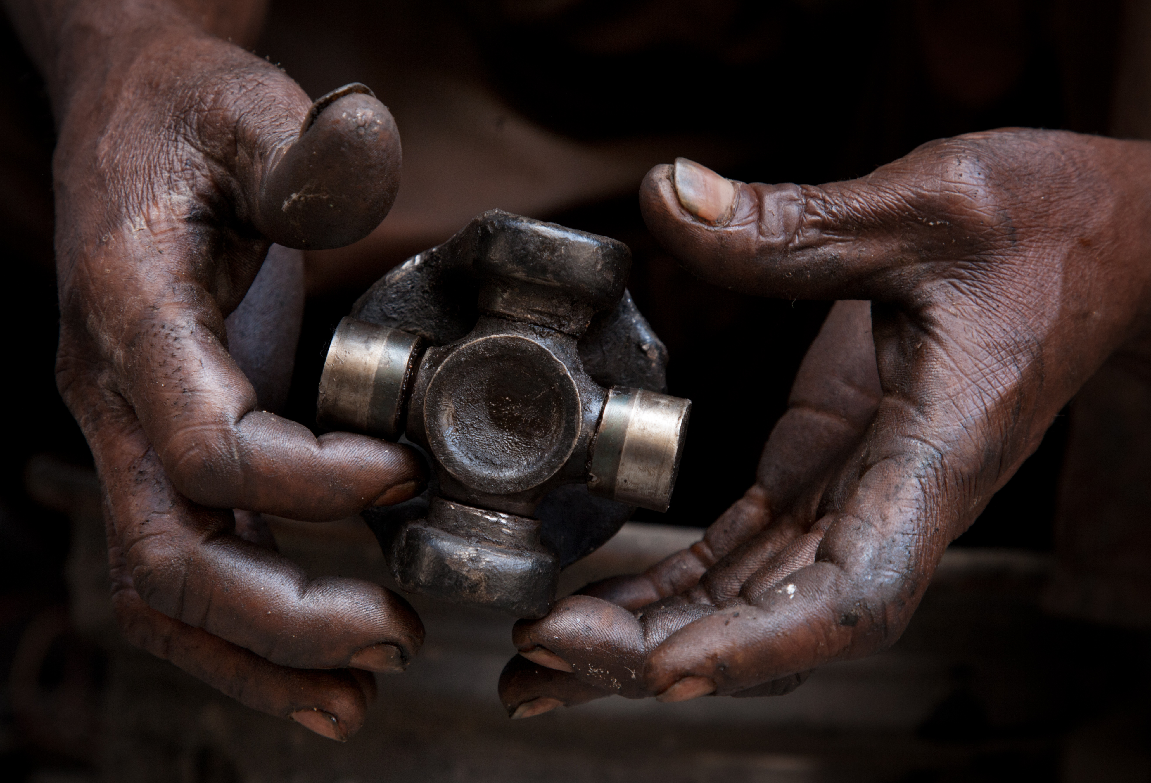 The greased hands of a mechanic fixing a transmission shaft. Havana (La Habana), Cuba